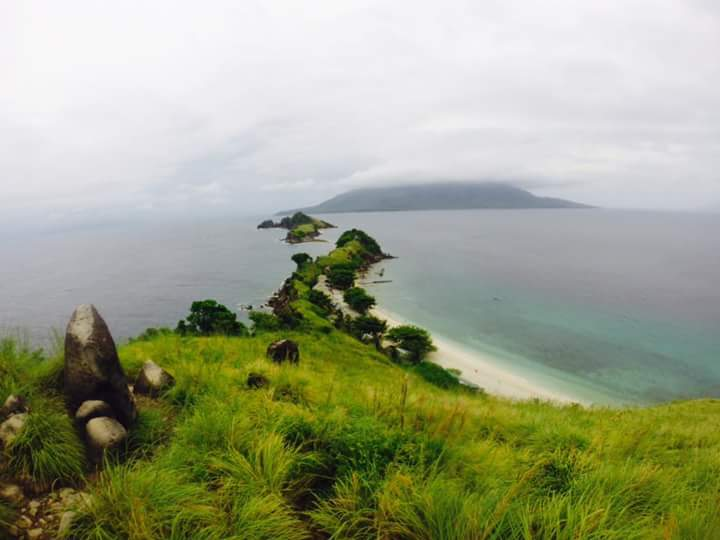 Nakikit-an it Maripipi Island tikang ha Sambawan Island.